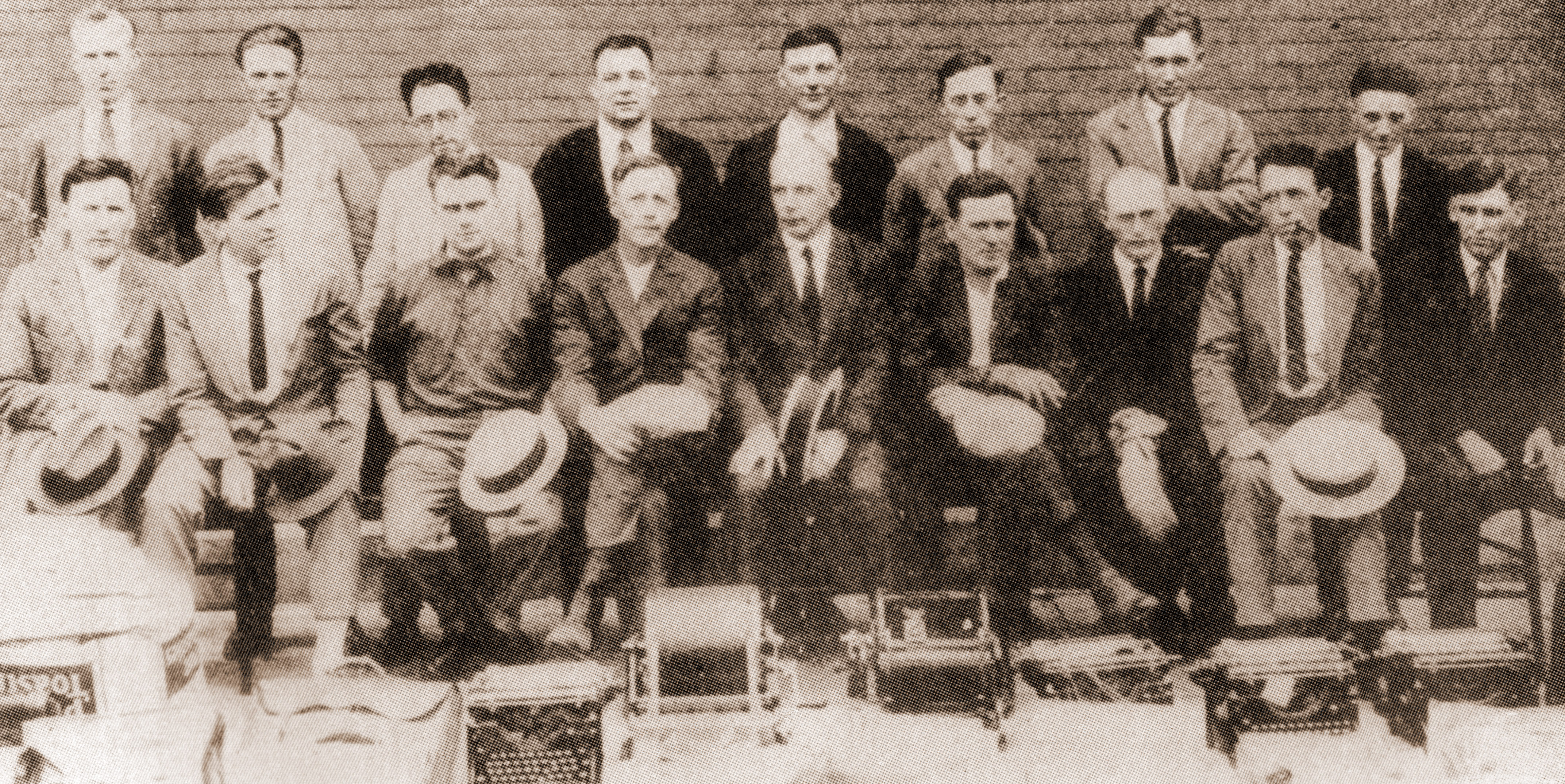 Those arrested in the August 22, 1922 raid of the Communist Party convention at Bridgman, Michigan Those shown are: (standing, L-R) T.J. O'Flaherty, Charles Erickson, Cyril Lambkin, Bill Dunne, John Mihelic, Alex Bail, W.E. "Bud" Reynolds, "Francis Ashworth" (BoI spy). (seated, L-R) Norman Tallentire, Caleb Harrison, Eugene Bechtold, Seth Nordling, C.E. Ruthenberg, Charles Krumbein, Max Lerner, T.R. Sullivan, Elmer McMillan. Note to future users of this image: Max Lerner is not the well-known journalist of the same name, but a different individual.